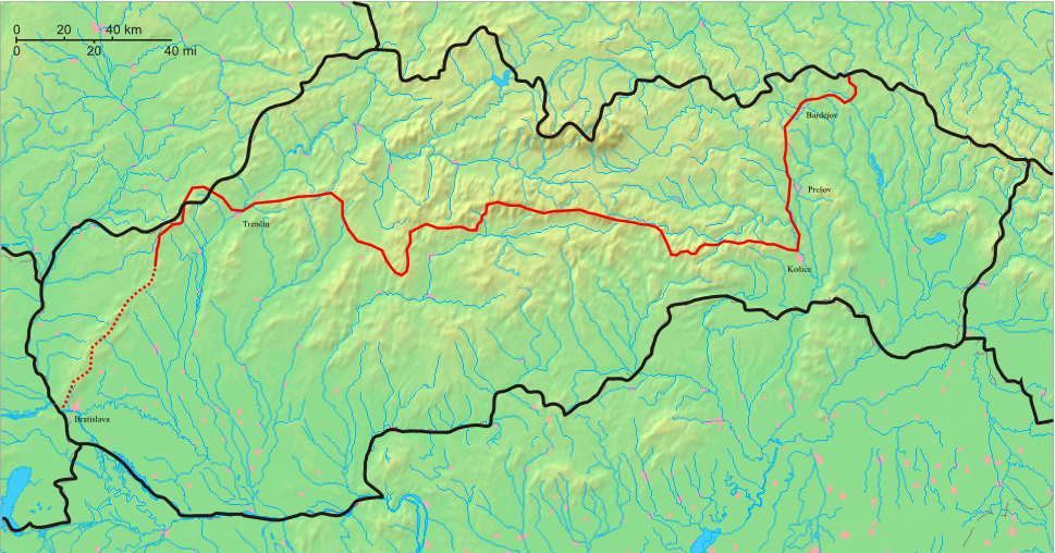 Tourist route of heroes of Slovak National Uprising, part of internation long-distance path E8